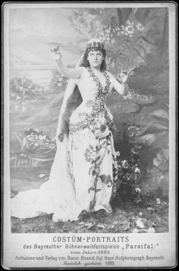 Therese Malten as Kundry